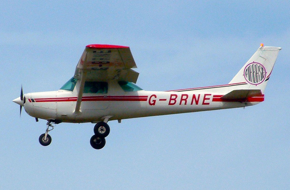 G-BRNE a 1980-built Cessna 152 landing at Shoreham Airport, England